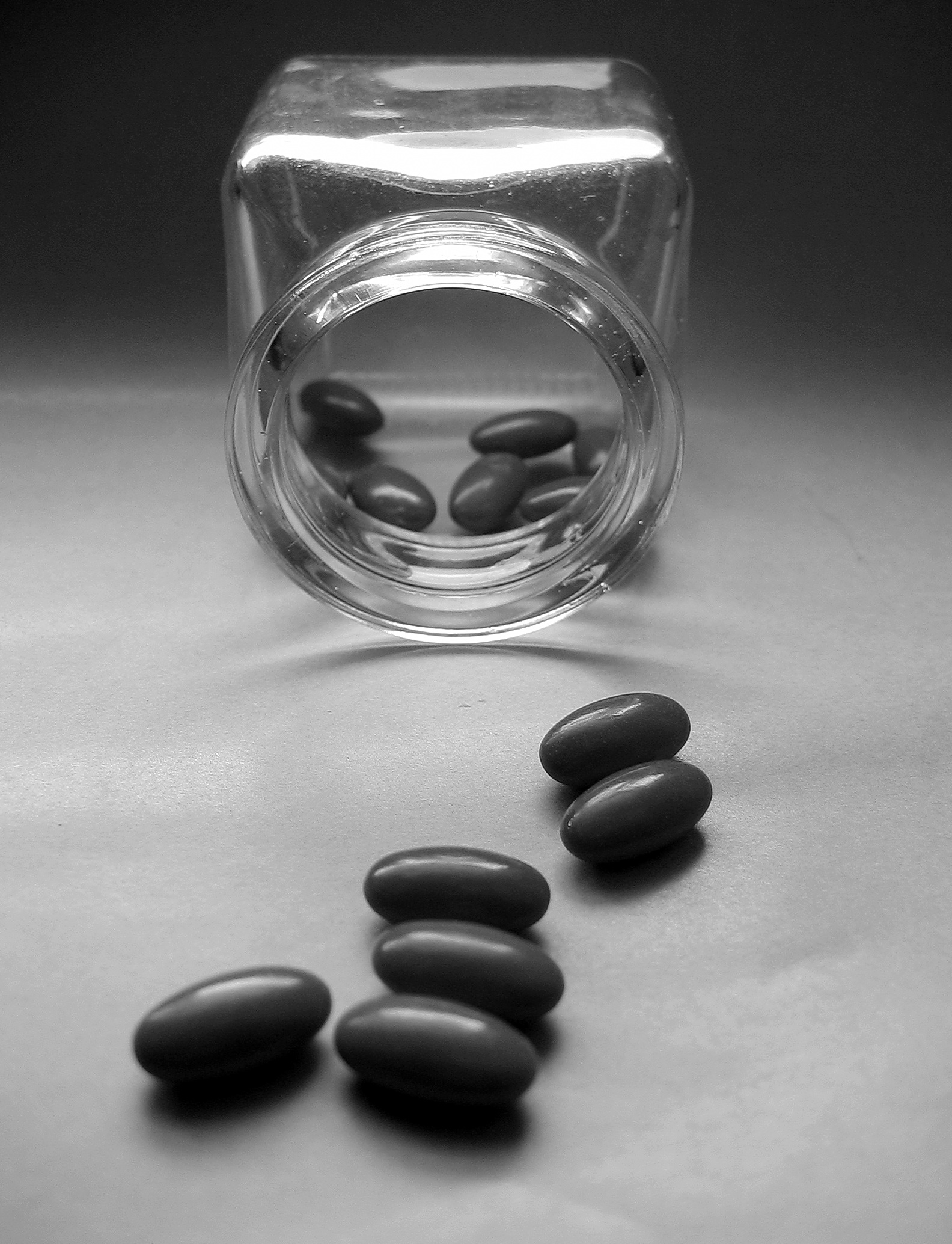 Pills